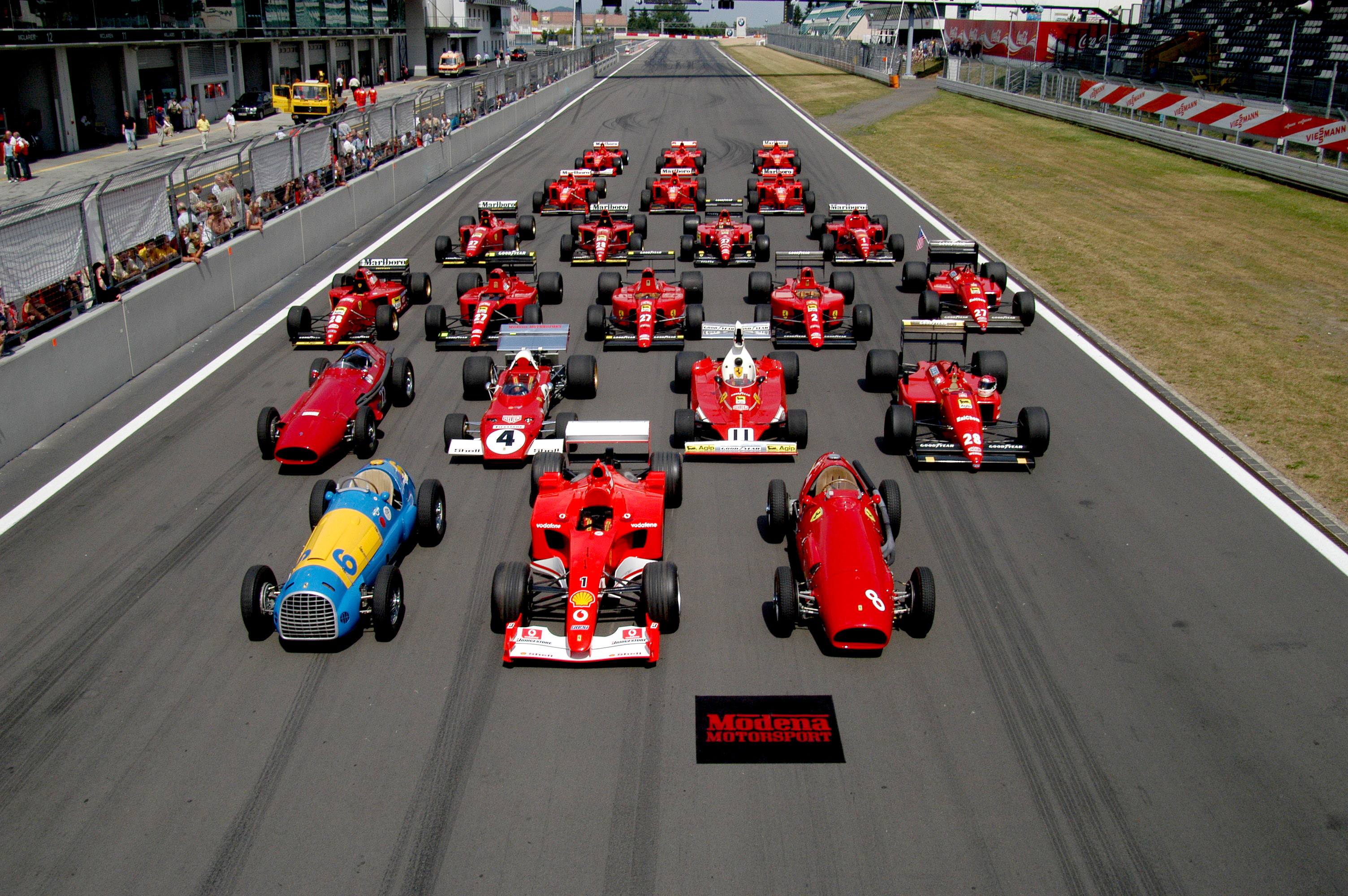 Ferrari Formula 1 lineup during the 10th edition of the Ferrari Track Days organised by Modena Motorsport at the German Nürburgring. 22 Ferrari Formula 1 cars in attendance 1949 - Ferrari 166 Formula Libre, s/n 011F 1954 - Ferrari 500/625 Monoposto, s/n 54/1 1972 - Ferrari 312 B2, s/n 005 (ex-Ickx, owner: Helmut Gossens, D) 1975 - Ferrari 312 T, s/n 024 (ex-Regazzoni, owner: Leopold Hrobsky, CH) 1987 - Ferrari F1-87, s/n 097 1987 - Ferrari F1-87, s/n 101 1990 - Ferrari 641/2, s/n 120 (ex-Mansell, owner: Michael Gabel, D) 1991 - Ferrari 642, s/n 124 1991 - Ferrari 643, s/n 130 (ex-Prost, owner: Leopold Hrobsky, CH) 1992 - Ferrari F92A, s/n 131 (ex-Alesi, owner: Freddy Plangger, D) 1994 - Ferrari 412, s/n 155 1995 - Ferrari 412 T2, s/n 163 (owner: Tamboer, D) 1995 - Ferrari 412 T2, s/n 164 1996 - Ferrari F310, s/n 171 1997 - Ferrari F310B, s/n 172 1997 - Ferrari F310B, s/n 173 1997 - Ferrari F310B, s/n 178 1998 - Ferrari F300, s/n 184 1998 - Ferrari F300, s/n 189 2000 - Ferrari F1-2000, s/n 198 2000 - Ferrari F1-2000, s/n 200 2001 - Ferrari F2001, s/n 216